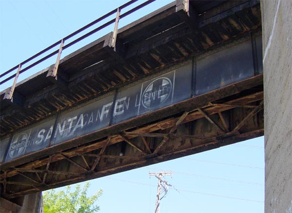 Plate girder bridge of the under track kind. Image by User:Leonard G. Faded paint reads "Grand Canyon Line". Now operated by the BNSF Railway (Burlington Northern - Santa Fe). This example is located in Pacheco.